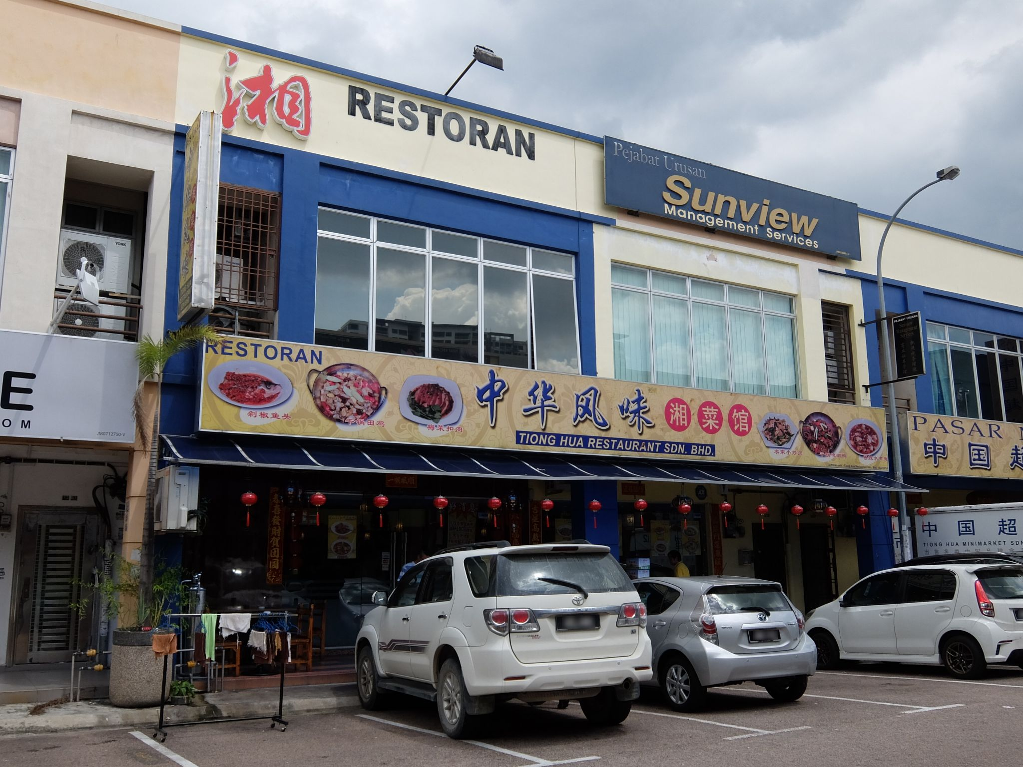 Tiong Hua Restaurant, Taman Nusa Bestari, Skudai, Iskandar Puteri, Johor, Malaysia